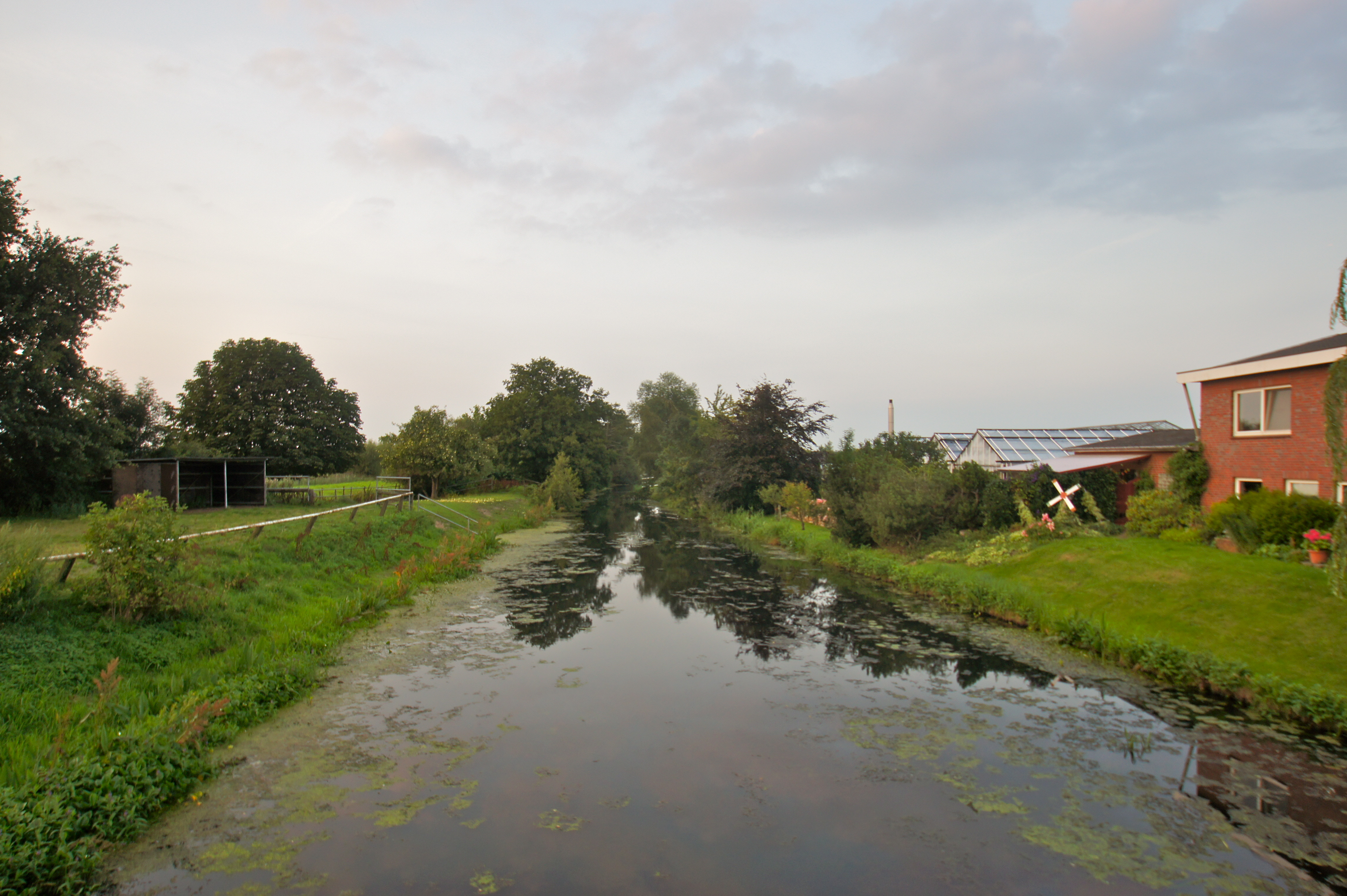 Hamburg (Neuengamme), Germany: The Neuengammer Durchstich at the Neuengammer Hinterdeciih